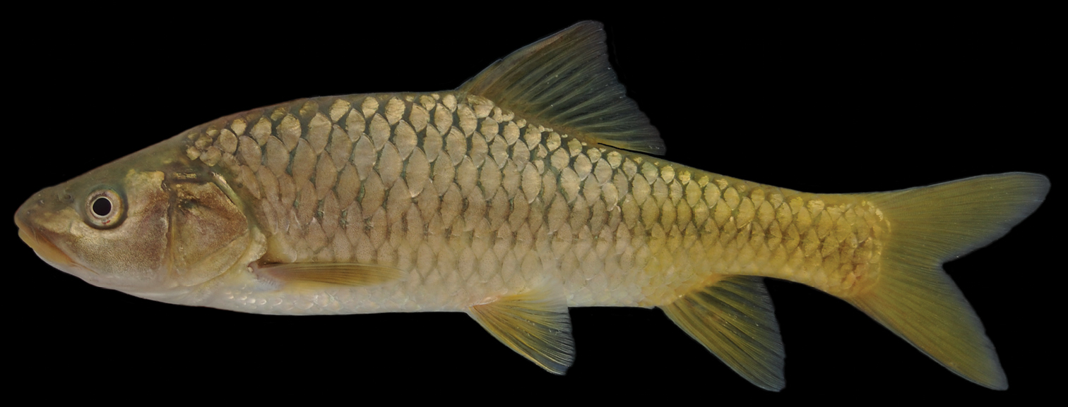 Carasobarbus canis, live specimen from Wadi al-‘Arab.